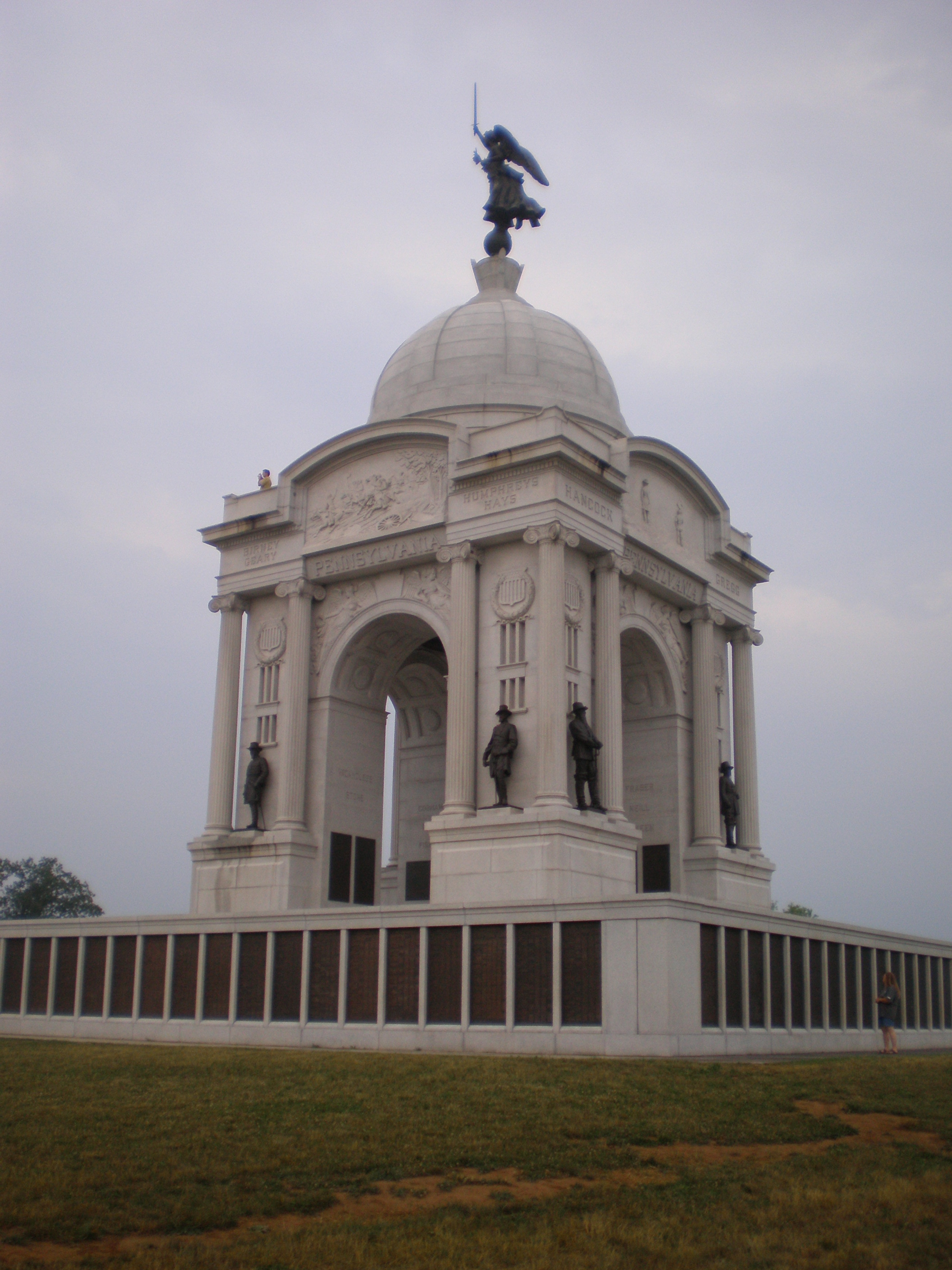 The 1910 Pennsylvania Memorial on the Gettysburg Battlefield, view toward right rear corner with partial image of base.